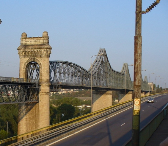 Cernavoda - the old Saligny bridge